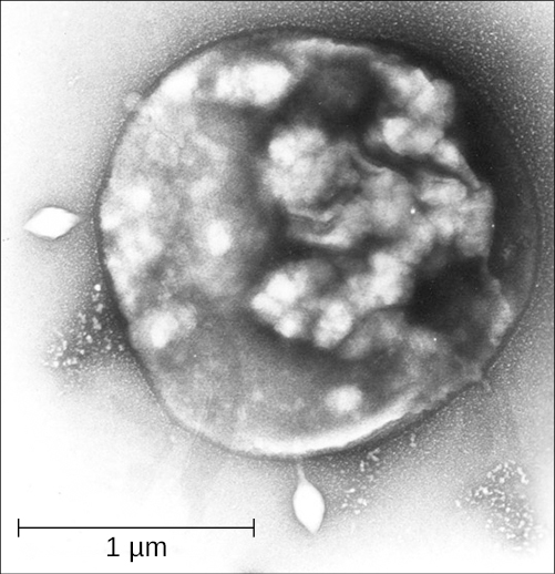 Name: Microbiology ID: Language: English Summary: Subjects: Science and Technology Keywords: Print Style: License: Creative Commons Attribution License (by 4.0) Authors: OpenStax Microbiology Copyright Holders: OpenStax Microbiology Publishers: OpenStax Microbiology Latest Version: 4.4 First Publication Date: Oct 17, 2016 Latest Revision: Nov 11, 2016 Last Edited By: OpenStax Microbiology